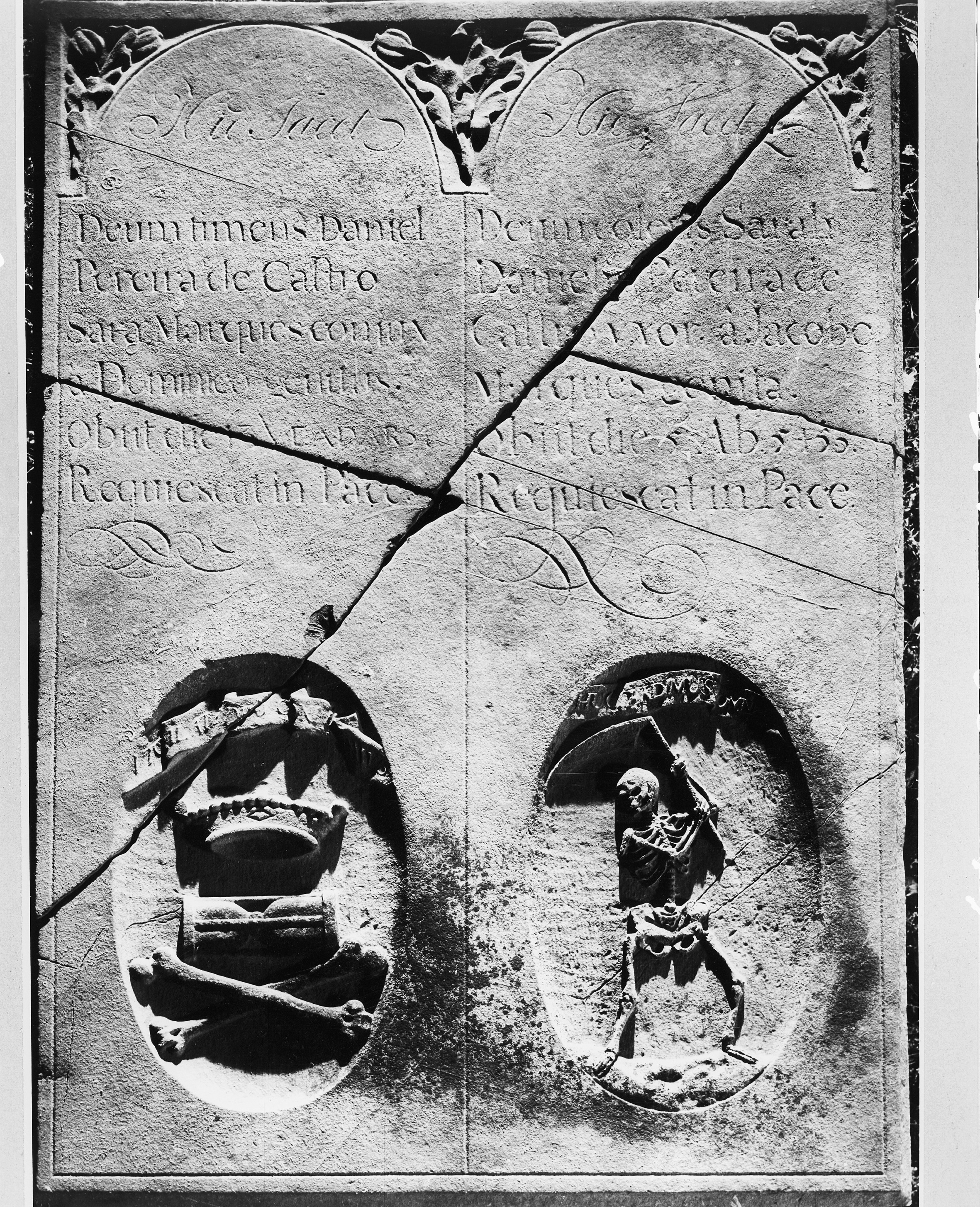 Probably Sefardic Jewish tombstone for Daniel Pereira de Castro and Sara Marques, Sunday July 17 1695 (New Style). Text left stone (translation) Here Lies Godfearing Daniel Pereira de Castro Sara Marques husband à Dominico ...s Died on the 13th... May he rest in peace Text right stone Here Lies God(fearing?) Sarah? Daniel Pereira de Castro wife, Jacobo Marques ..nita Died on 5 Ab 5455 ? (Jewish calendar Ab = Av = eleventh month = July/August, Jewish year 5455 - 3761 = 1694/1695, so 17 July 1695 New Style ( Requiescat in Pace